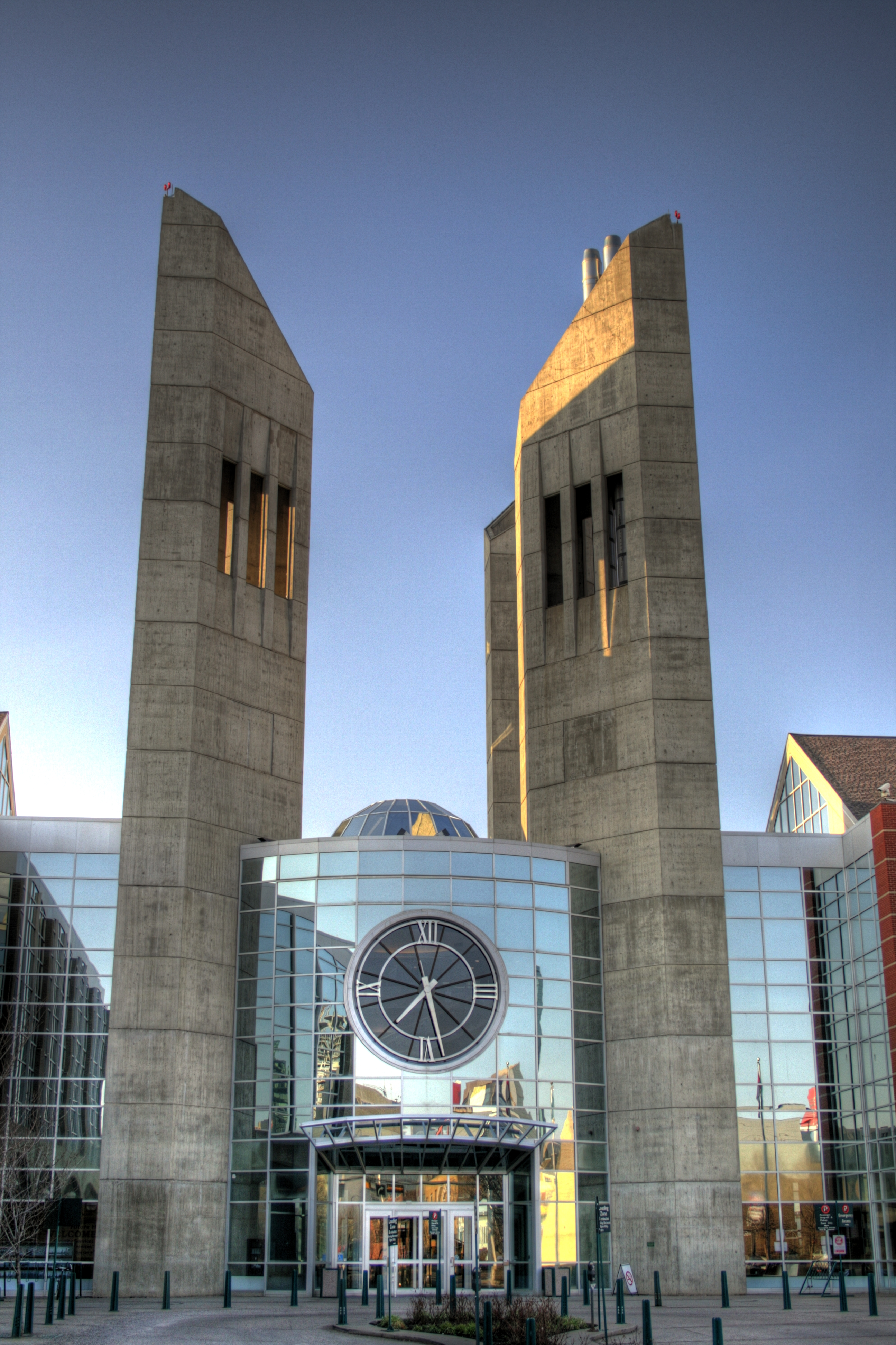 One entryway to the Grant MacEwan University campus in downtown Edmonton, Alberta.